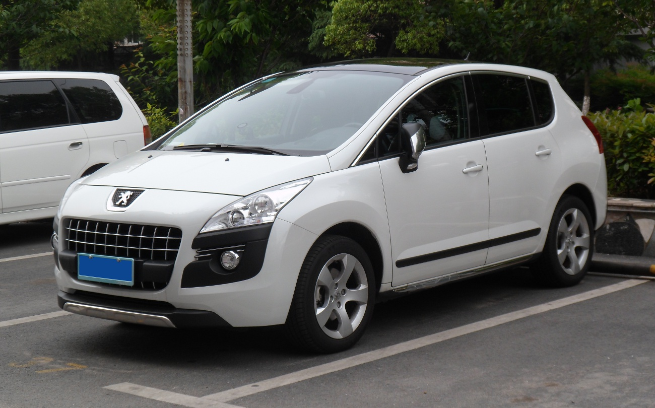 Peugeot 3008 photographed in Shanghai, China.